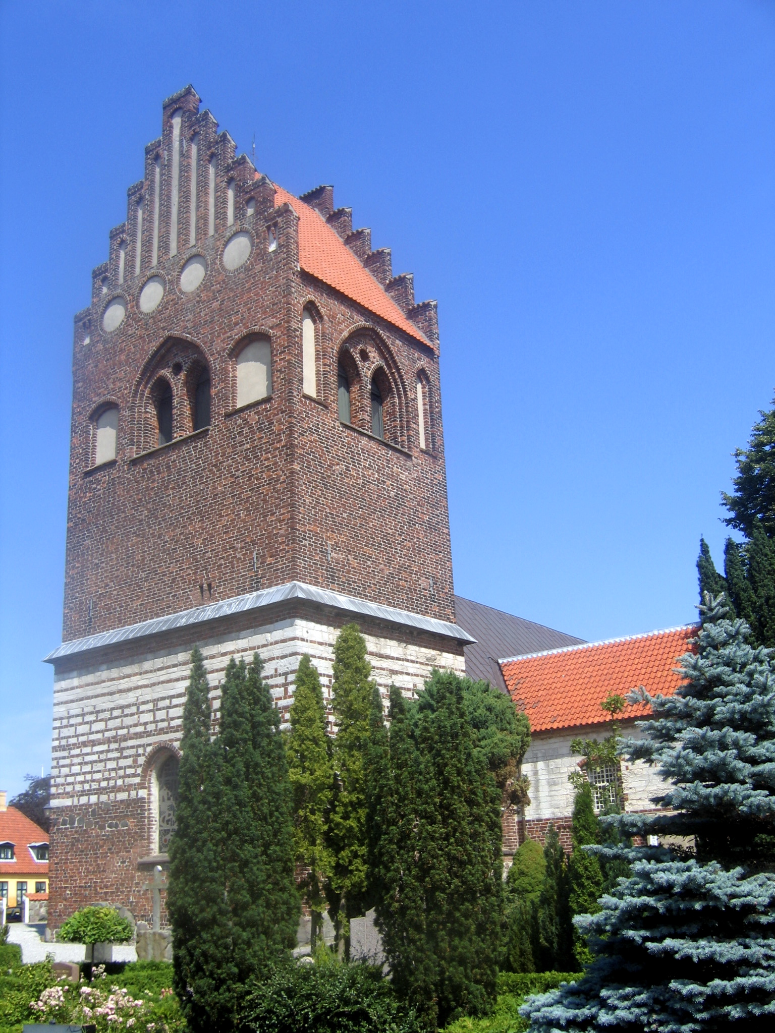 Tårnby kirke (Tårnby church)